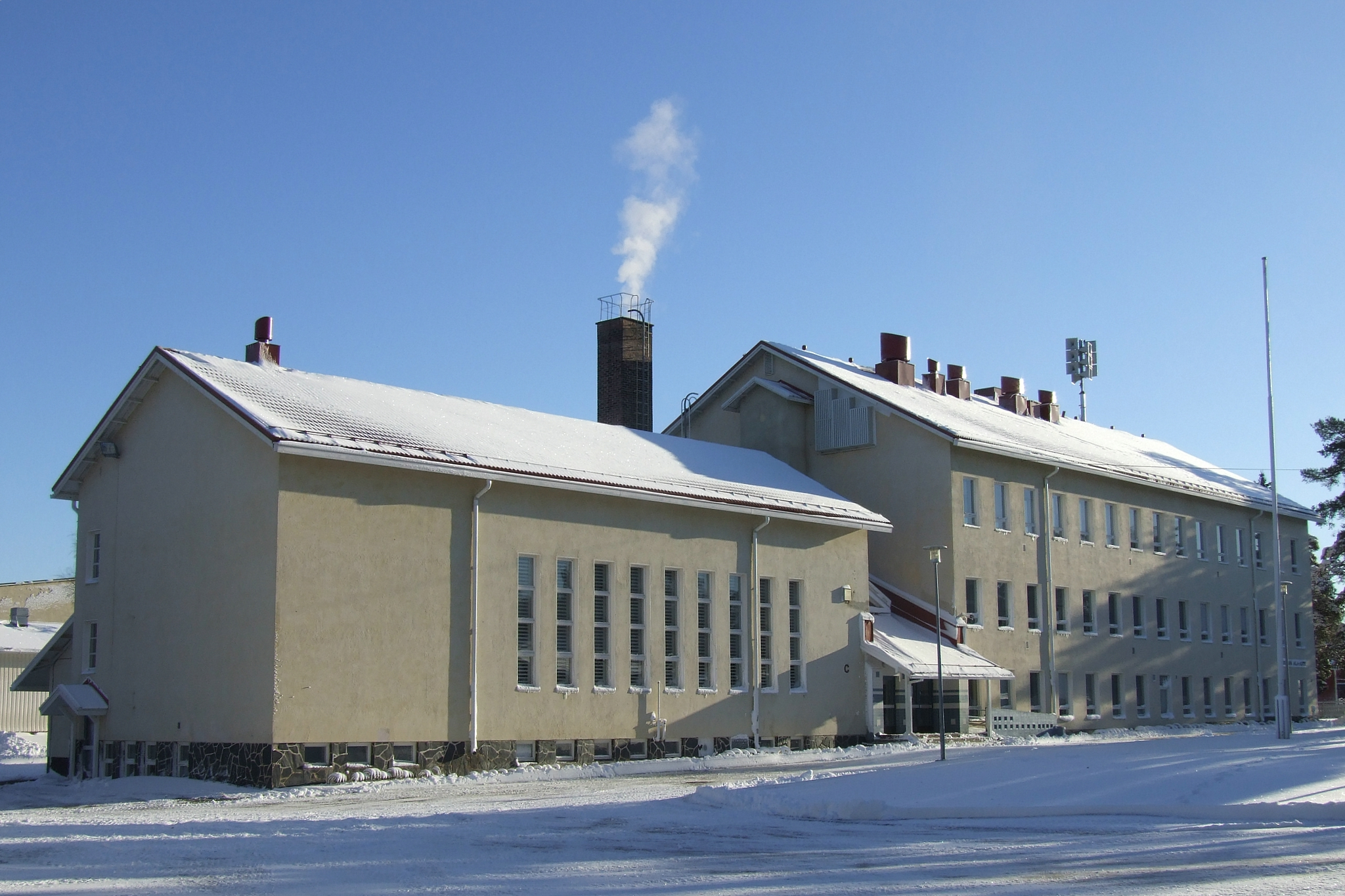 Herukan koulu Comprehensive School in Herukka neighbourhood in Oulu, Finland.